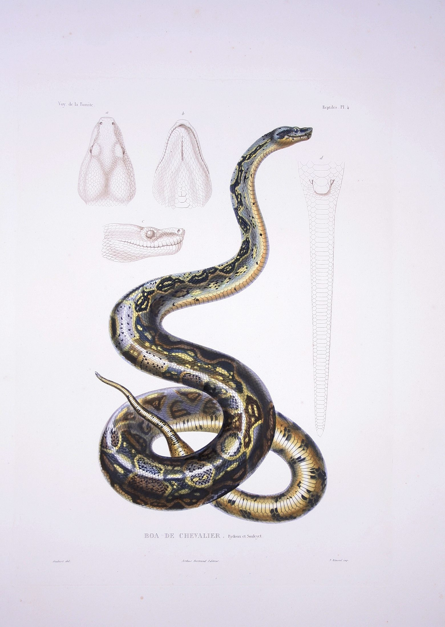 Boa constrictor imperator: illustration of the specimen described as Boa constrictor eques by Eydoux & Souleyet, which synonymized into B. c. imperator